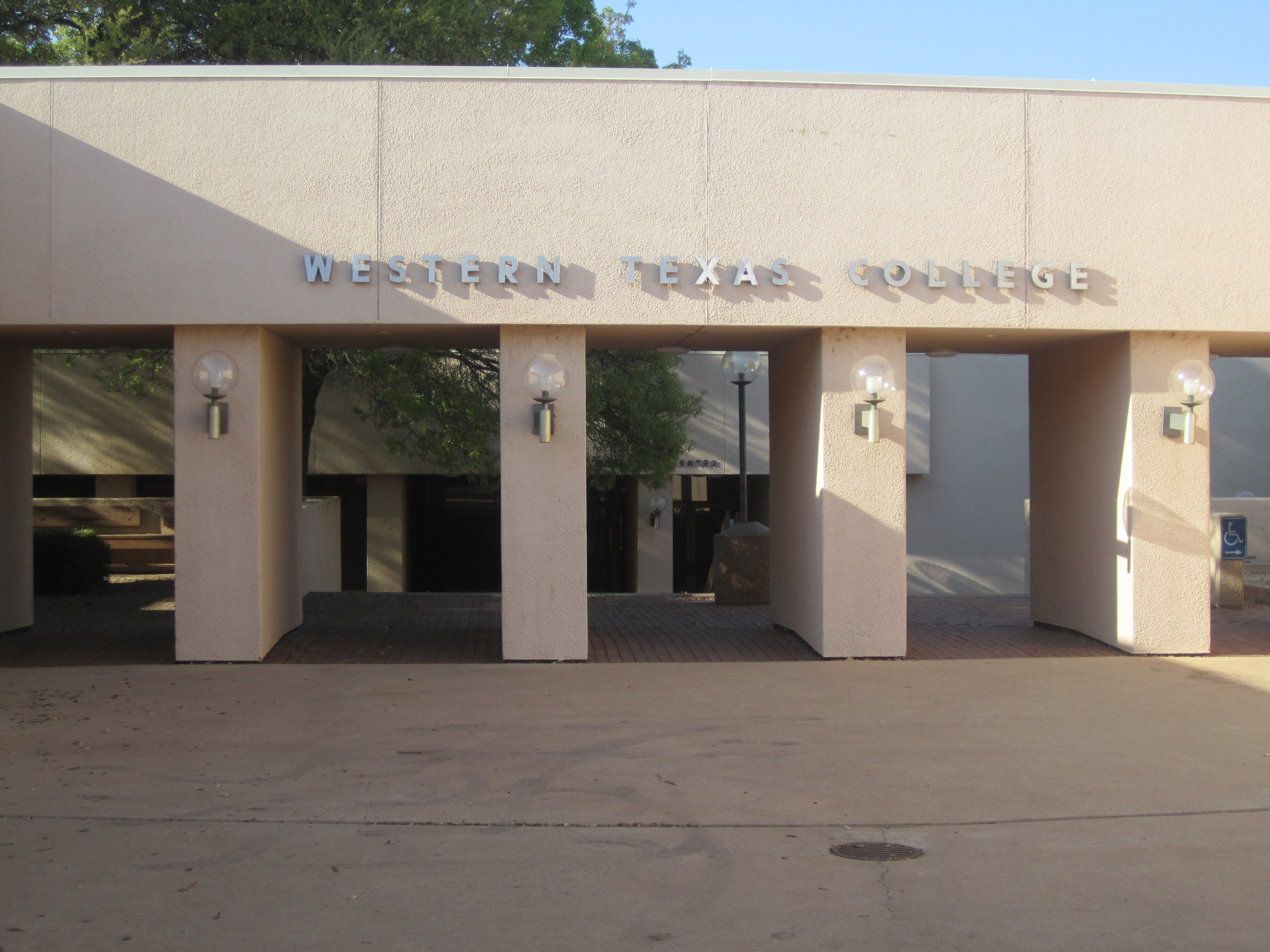 I took photo with Canon camera in Snyder, TX.